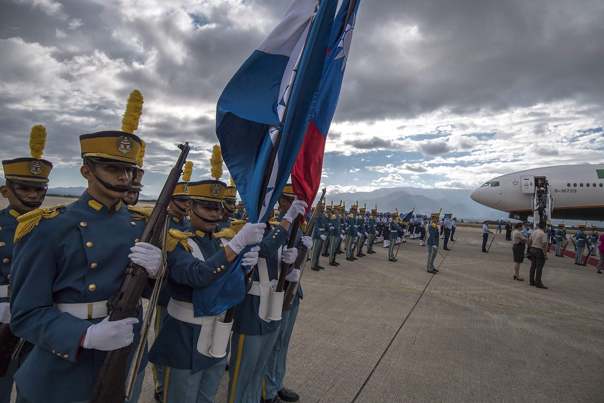 授權方式及範圍：中華民國總統府│政府網站資料開放宣告 Authorization Method & Scope: Office of the President, Republic of China (Taiwan) | Government Website Open Information Announcement